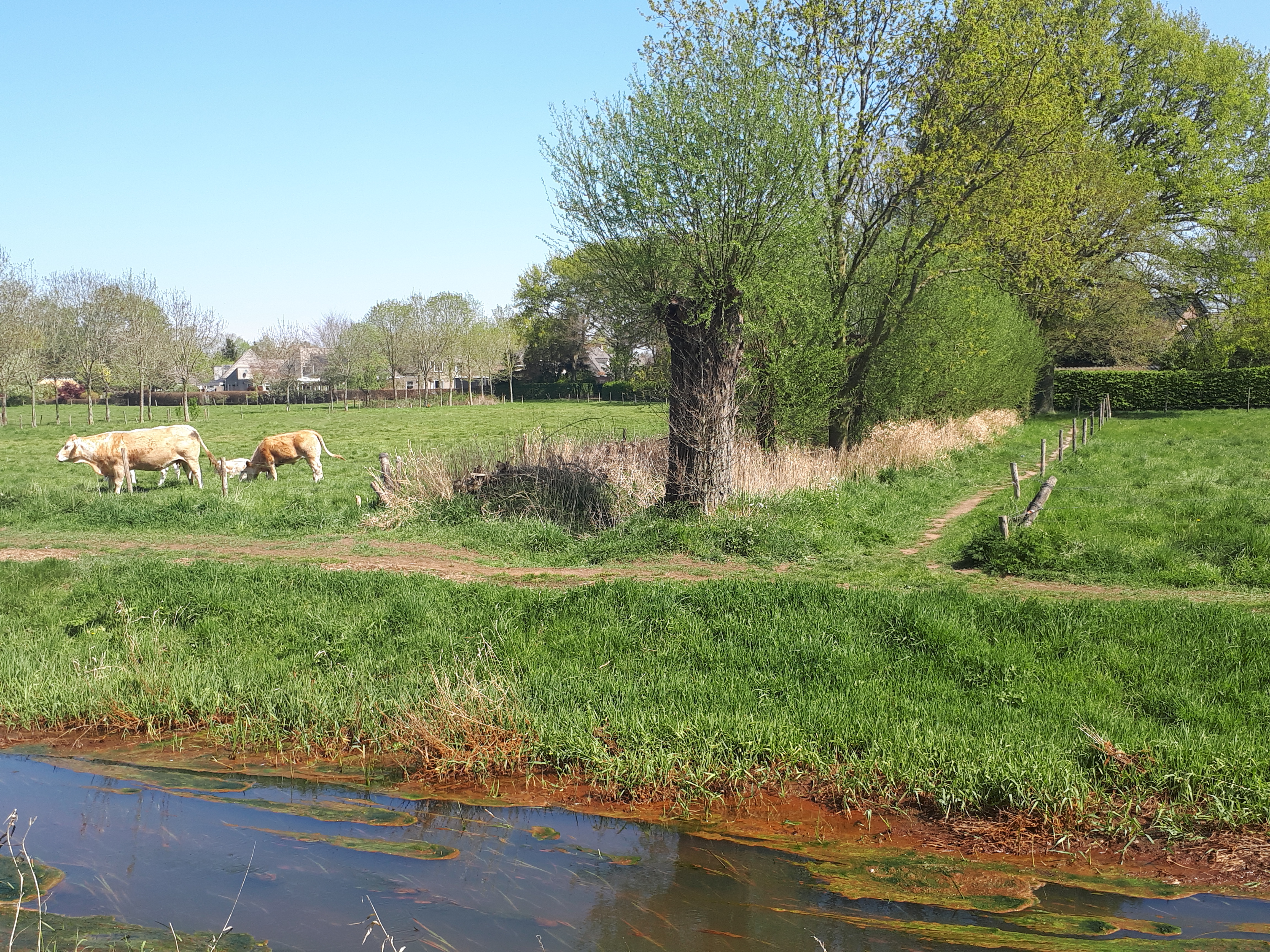 The Groote Beerze nearby the urban area of the village Hapert